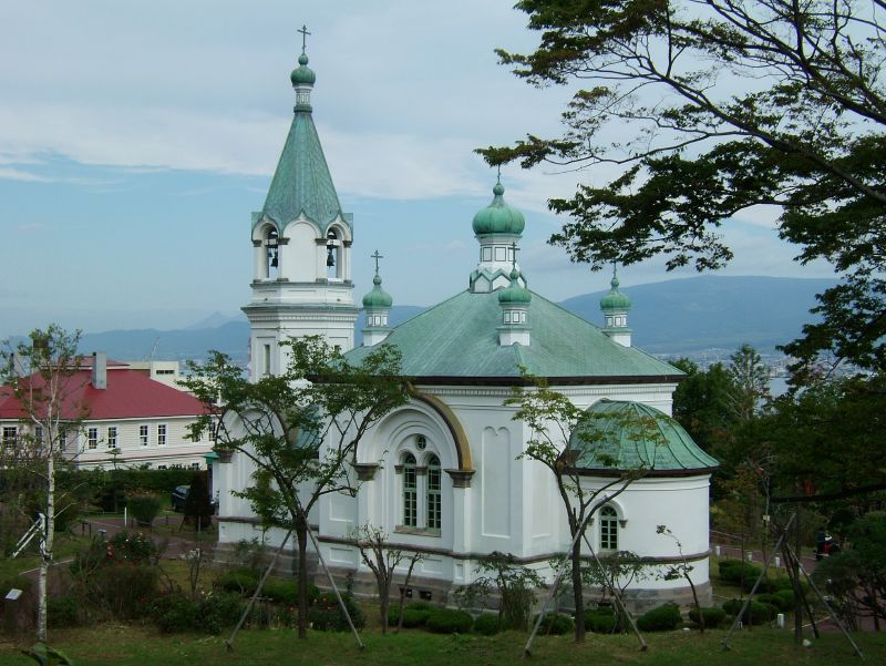 Founded in 1859 as a chapel of the Russian Consulate, the present church was built in 1916. In this time-honored church a Russian priest named Nikolai first introduced Greek Orthodoxy into Japan. It is characterized by an elegant look of Byzantine style and is affectionately called "Gangan-dera"(Ding-dong temple) by Hakodate citizens. A National Important Cultural Property. - Hakodate City Website Now the church belongs to the Autonomous Orthodox Church in Japan.